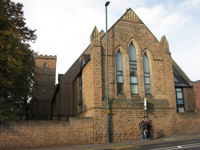 Blakeney House, Radford Road, Hyson Green, Nottingham: formerly St Paul's parish church